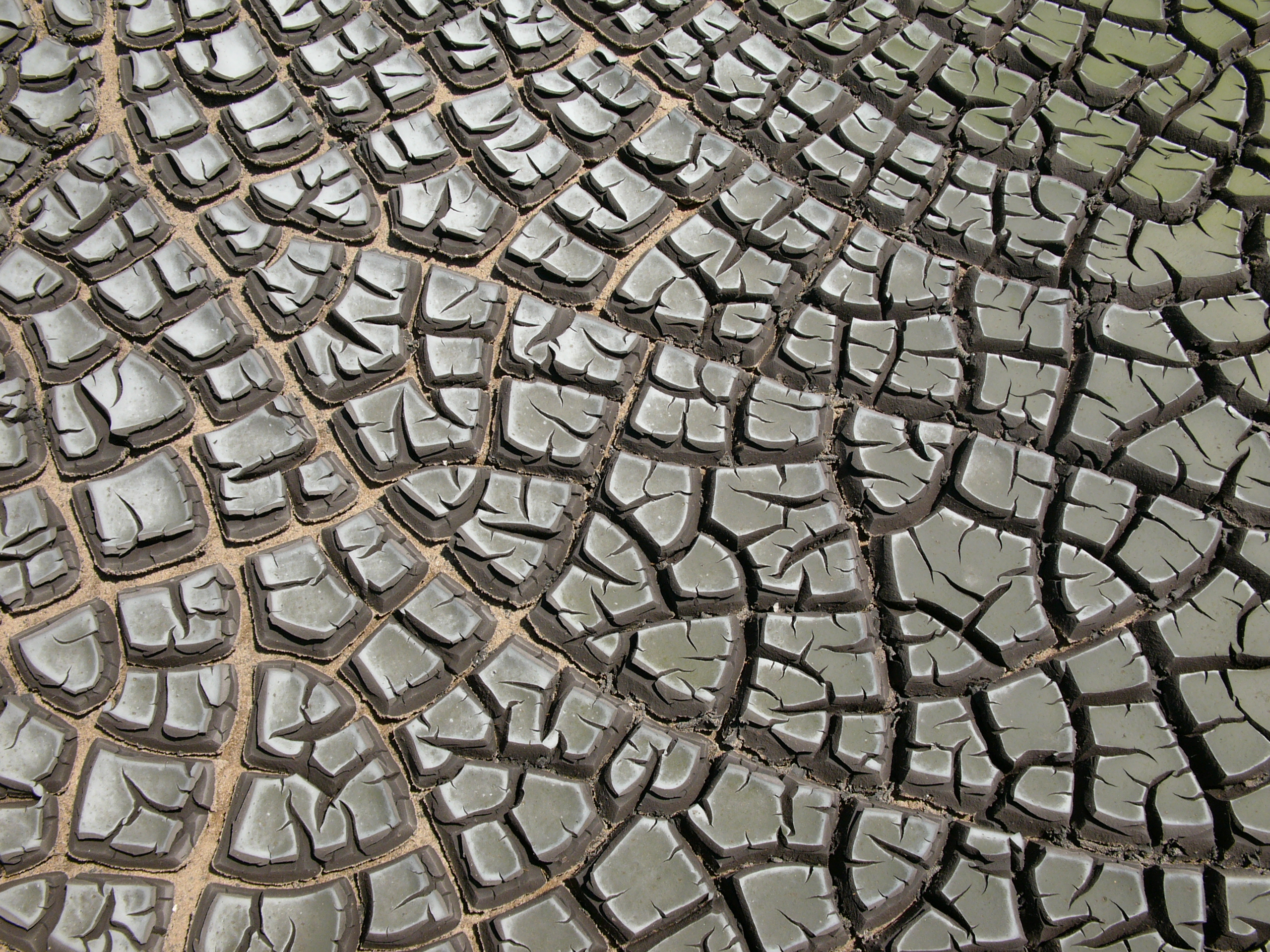 Desiccation cracks in dried sludge, the hard final remains from a sewage plant (scale is about 0.5 m for lower image border). Location is sewage plant of Robinson Club Daidalos on Kos, Greece